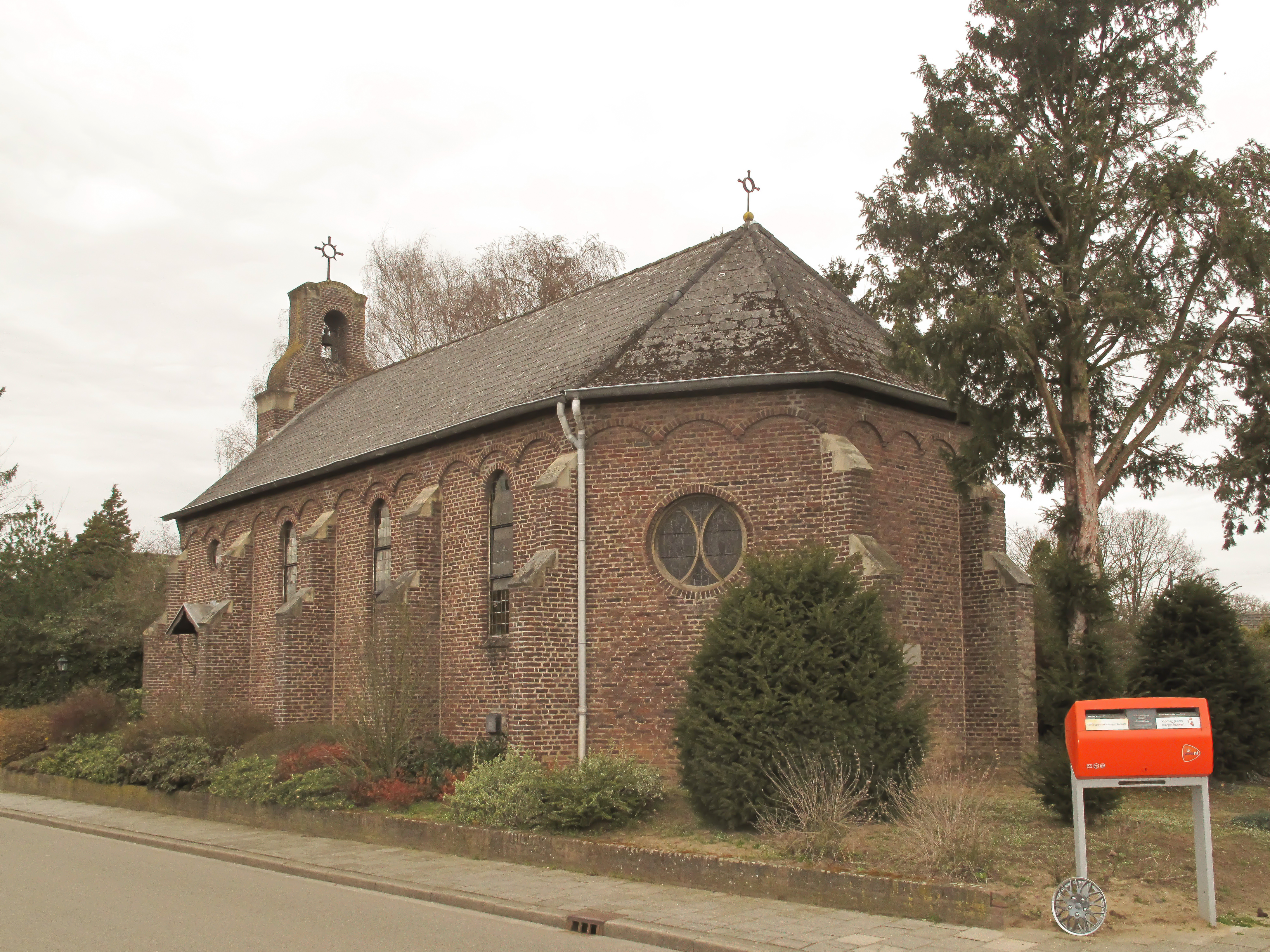 Panheel, chapel: de Onze Lieve Vrouwe van 't Hartkapel